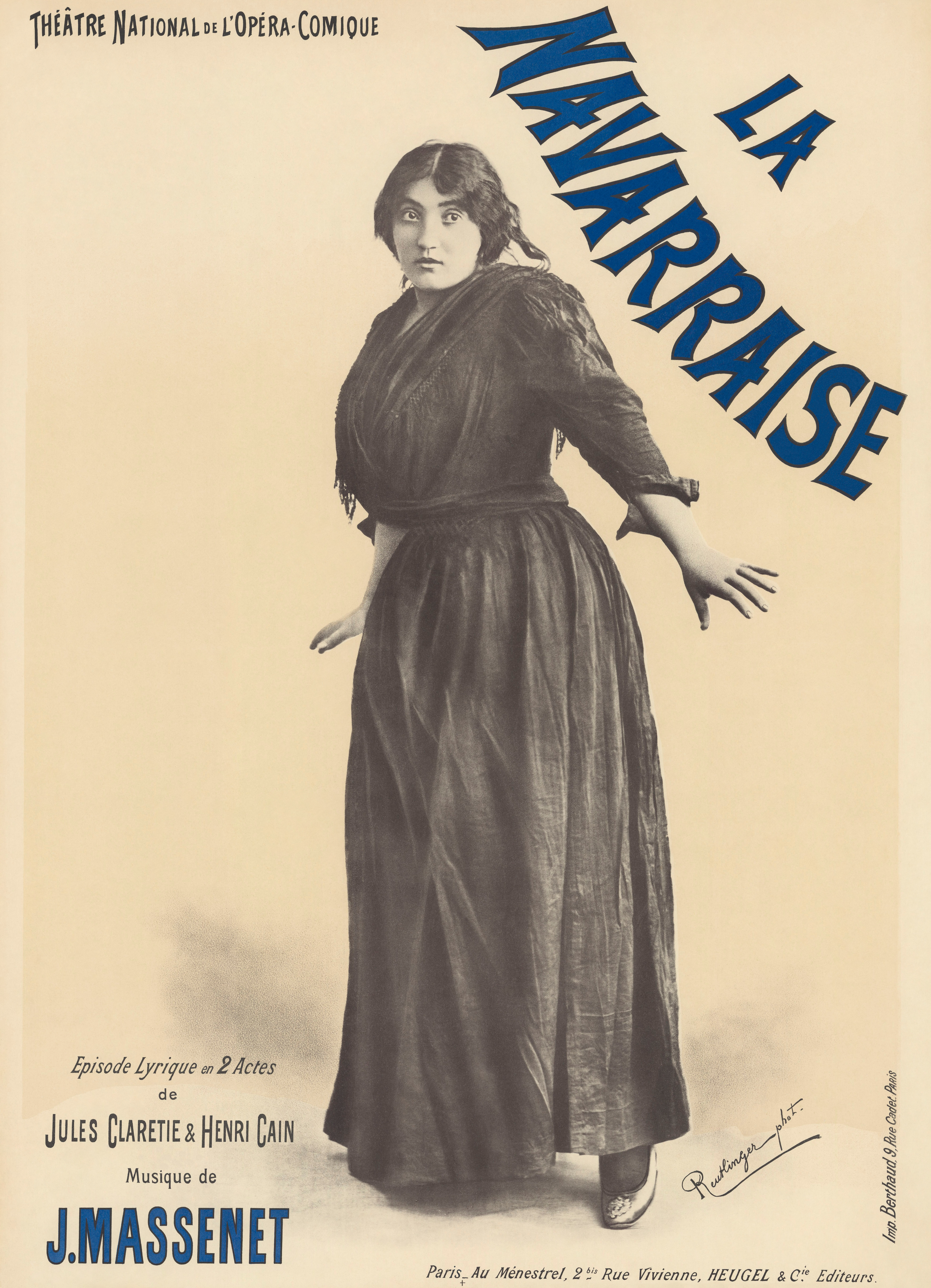 Poster for Jules Massenet's La Navarraise. Size: 0,830 x 0,600 m, showing Emma Calvé in the role of Anita. The piece was originally performed in London, Calvé reprised her role from that production for this poster's performance, the French première at the Théâtre de l'Opéra-Comique on 3 October 1895[1]